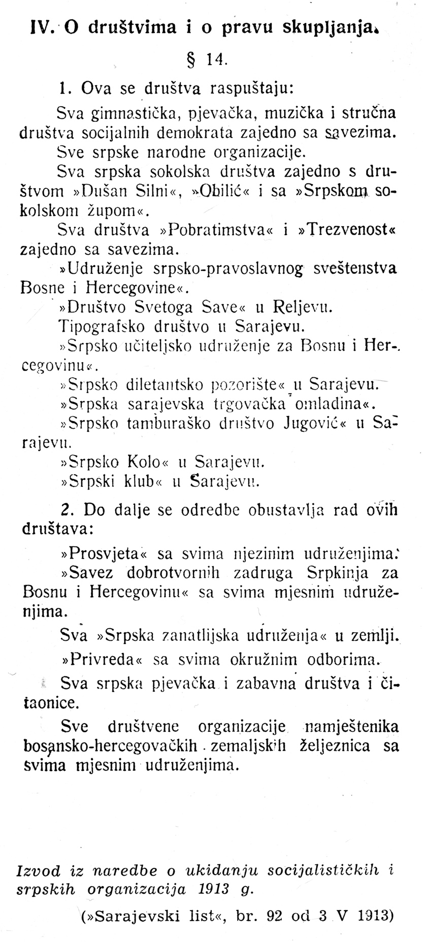 Excerpt from an Austro-Hungarian order that banned numerous social-democratic and Serb cultural societies in the territory of Bosnia-Herzegovina. As published in "Sarajevski List", 3 May 1913, #92. Translation: IV. About societies and the rights of assembly § 14. 1. These societies are dissolved: All gymnastic, choral, musical and vocational societies of Social Democrats along with their associated. All Serbian public organizations. All Serbian Sokol societies together with the societies "Dušan Silni", "Obilić" and "Srpska sokolska župa". All societies of "Pobratimstvo" and "Trezvenost" along with the associated. "Society of Serbian-Orthodox priesthood of Bosnia and Herzegovina". "Society of St. Sava" in Reljevo. Typographical Society in Sarajevo. "Serbian Teachers' Union for Bosnia and Herzegovina". "Serbian Amateurs' Theatre" in Sarajevo. "Serbian Musical Society Jugović" in Sarajevo". "Serbian Dance" in Sarajevo. "Serbian Club" in Sarajevo. 2. Further, stipulations are annulled for these societies: "Prosvjeta" and all its societies. "Union for charitable cooperation of Serbian women in Bosnia and Herzegovina" with all its local societies. All "Serbian workers' societies" in the country. "Privreda" with all the related committees. All Serbian choral and entertainment societies and reading rooms. All social organizations for employees of Bosnia-Herzegovina train stations together with all their local societies.